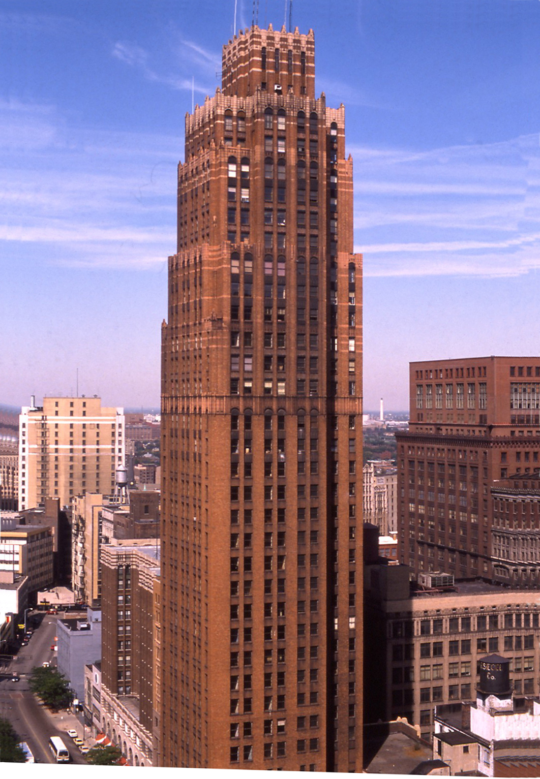 The David Stott Building, the 13th-tallest building in the city of Detroit, Michigan.